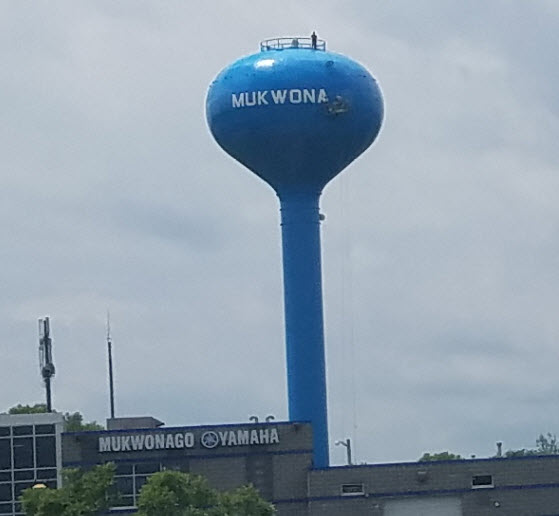 Mukwonago Water Tower by I43 in the process of being repainted, 6/2019.